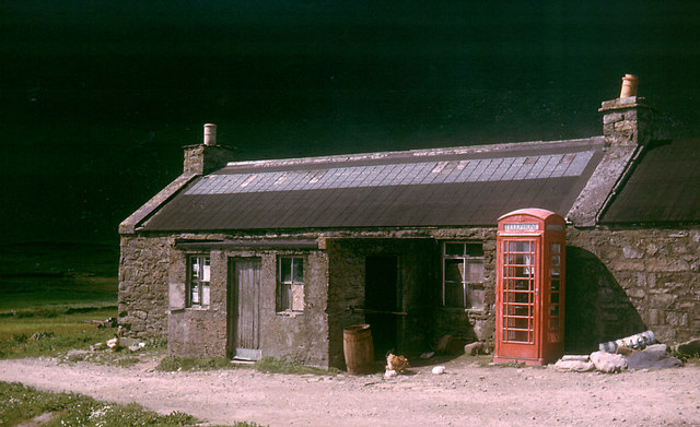 Foula Post Office in 1964 with the deeply shadowed Hamnafjeld in the background